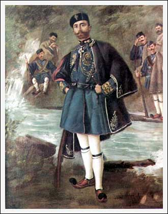 Konstantinos Mazarakis-Ainian (nom de guerre "kapetan Akritas"), Greek guerrilla captain